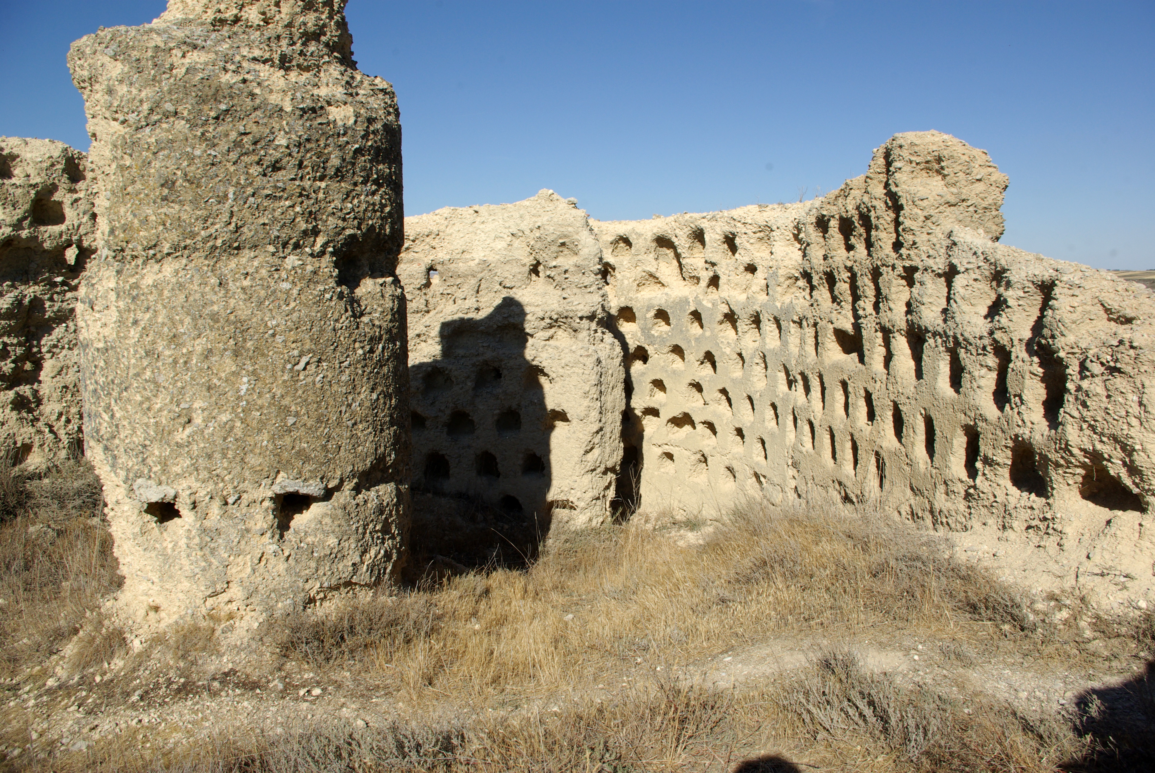 Torremormojón castle. (Palencia, Spain). It has been used as dovecote.